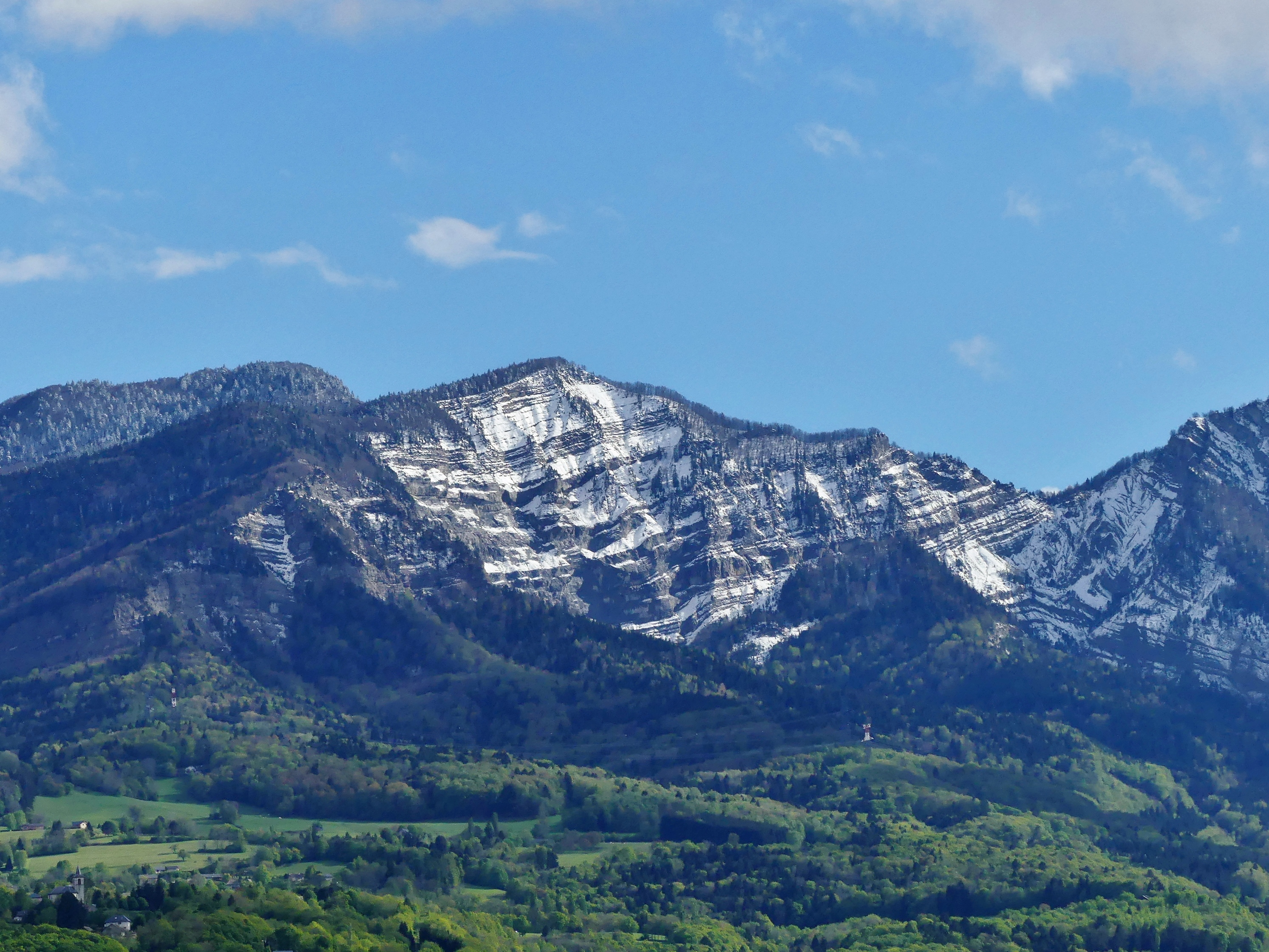 Sight, from Chambéry, of the snow-covered pointe de la Gorgeat mountain in the Chartreuse range, after snowfalls during the previous night, in Savoie, France.